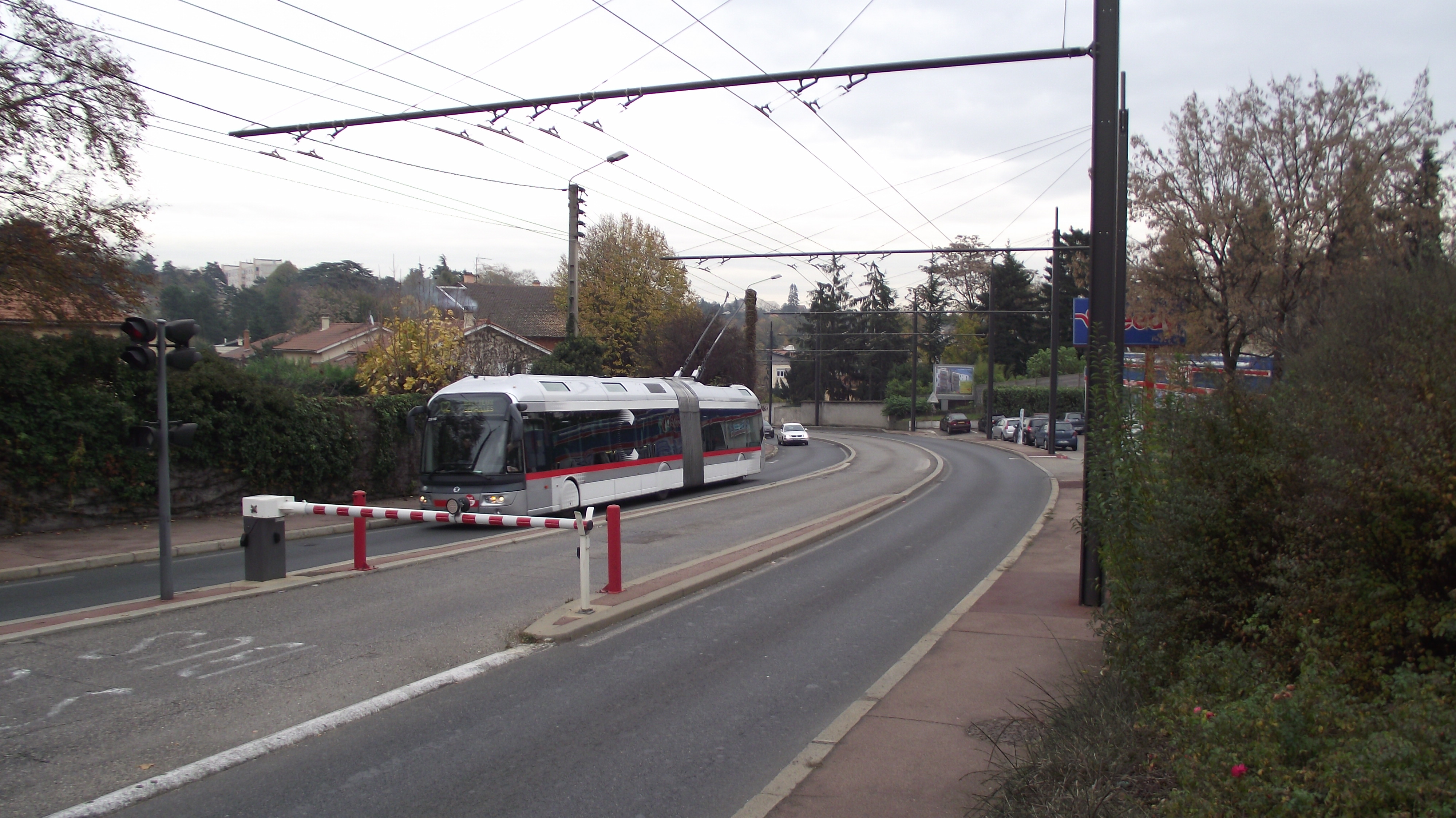 C2 trolleybus on the Montée des Soldats road.